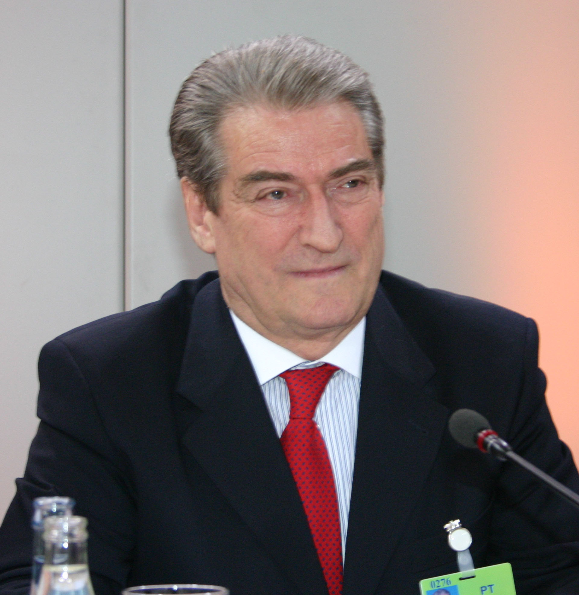 42nd Munich Security Conference 2006: Prof.Dr.Sali Berisha, Prime Minister, Albania.